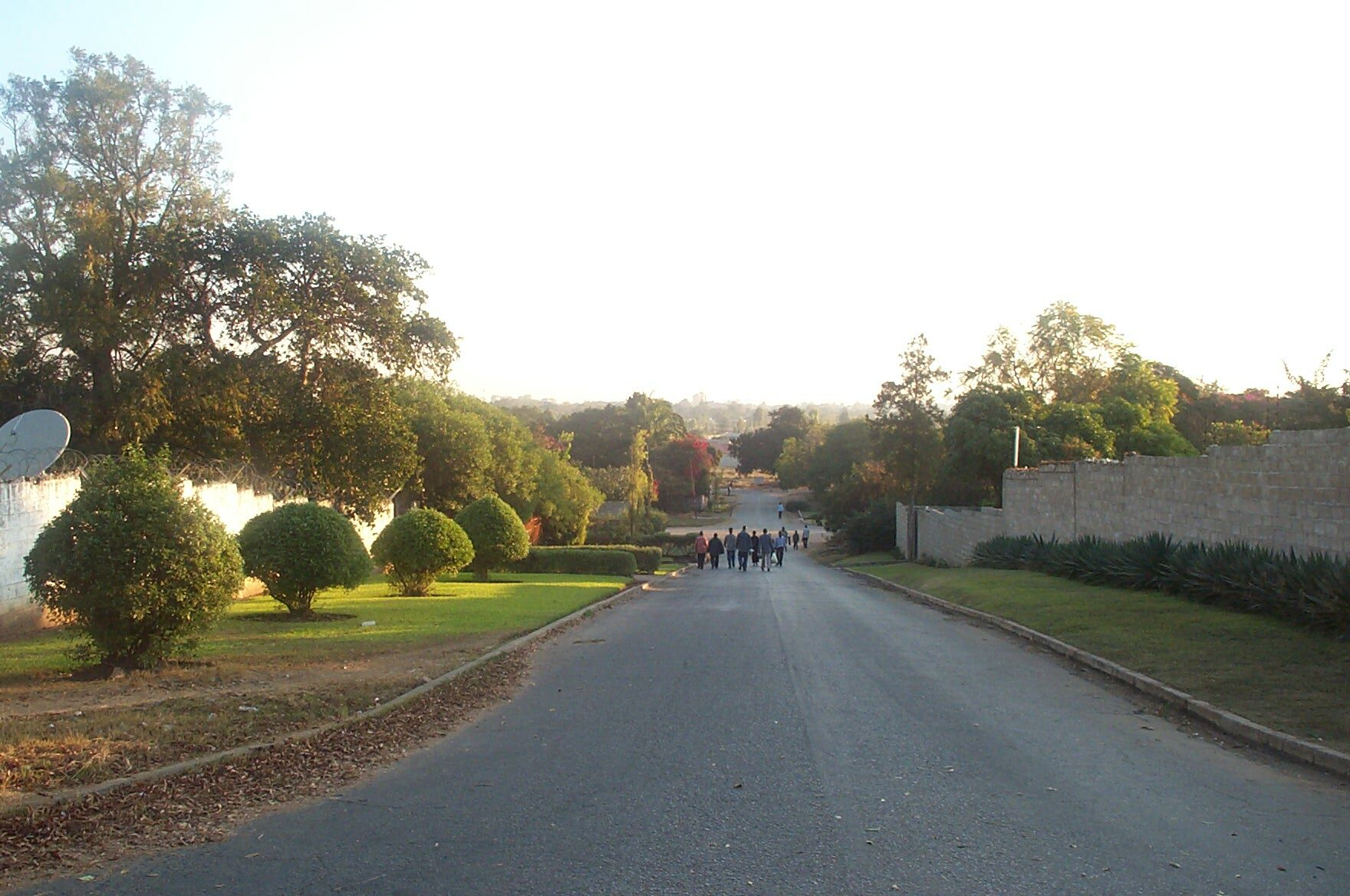 Lusaka Suburbs veiw